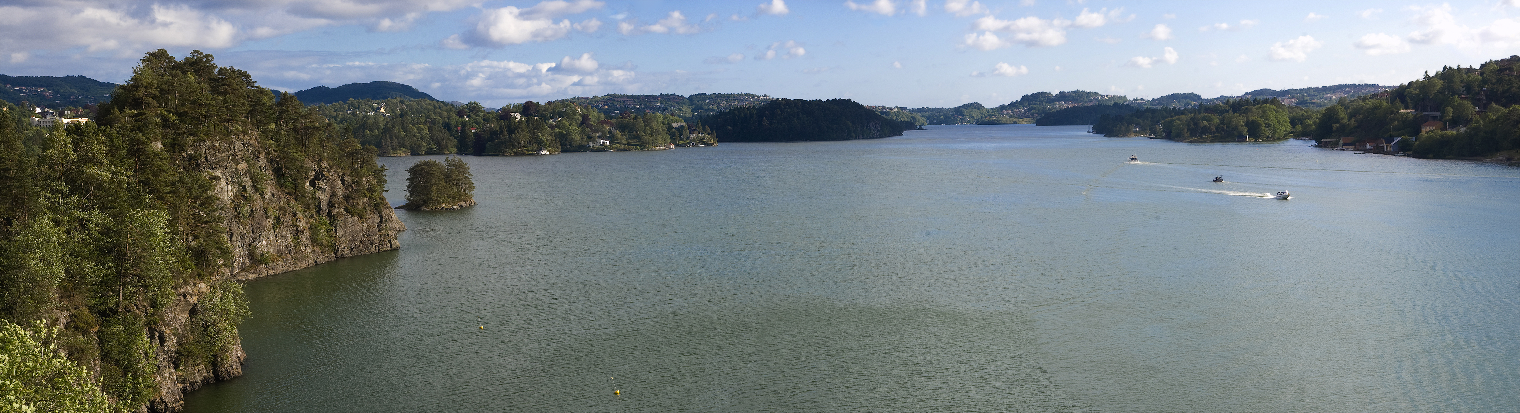 Nordåsvannet, a bay or fjord in Bergen, Norway.